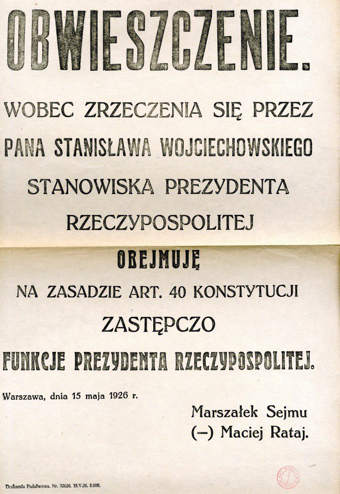 Poster of public proclamation of Maciej Rataj acting as Marshal of the Sejm for substitution for the President of Poland Stanisław Wojciechowski after May Coup